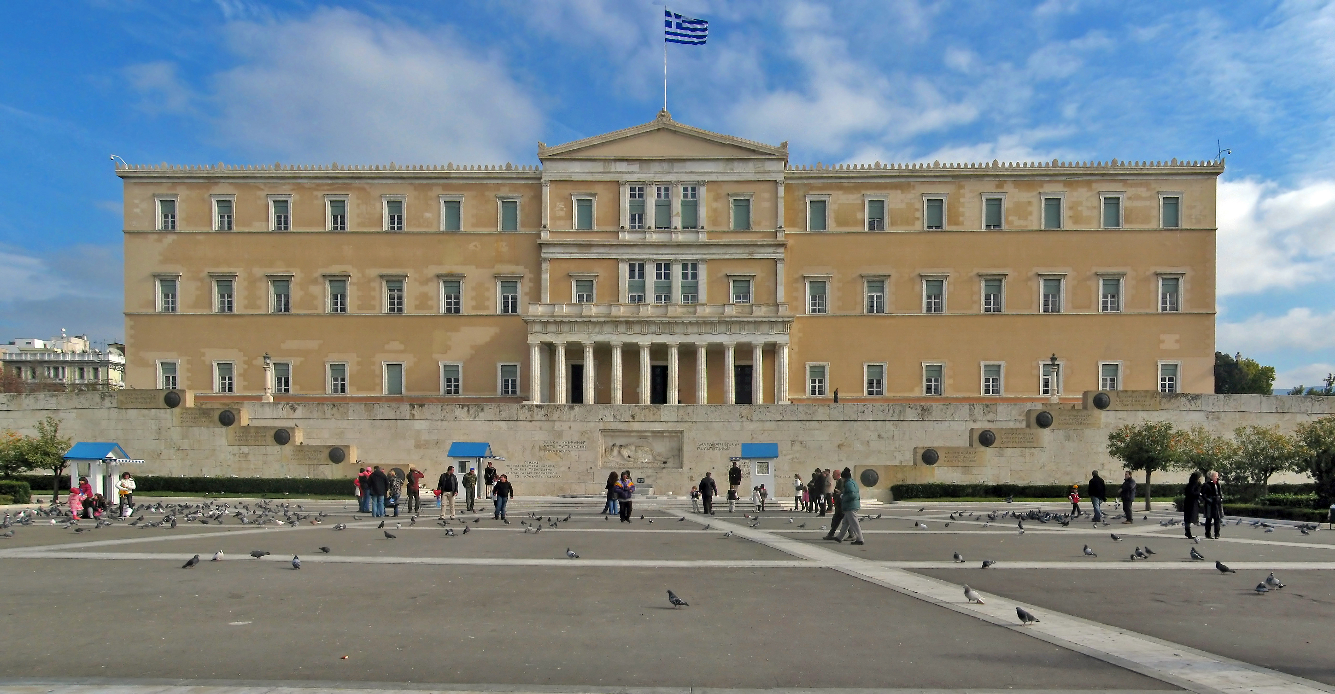 The greece parliament in Athen.